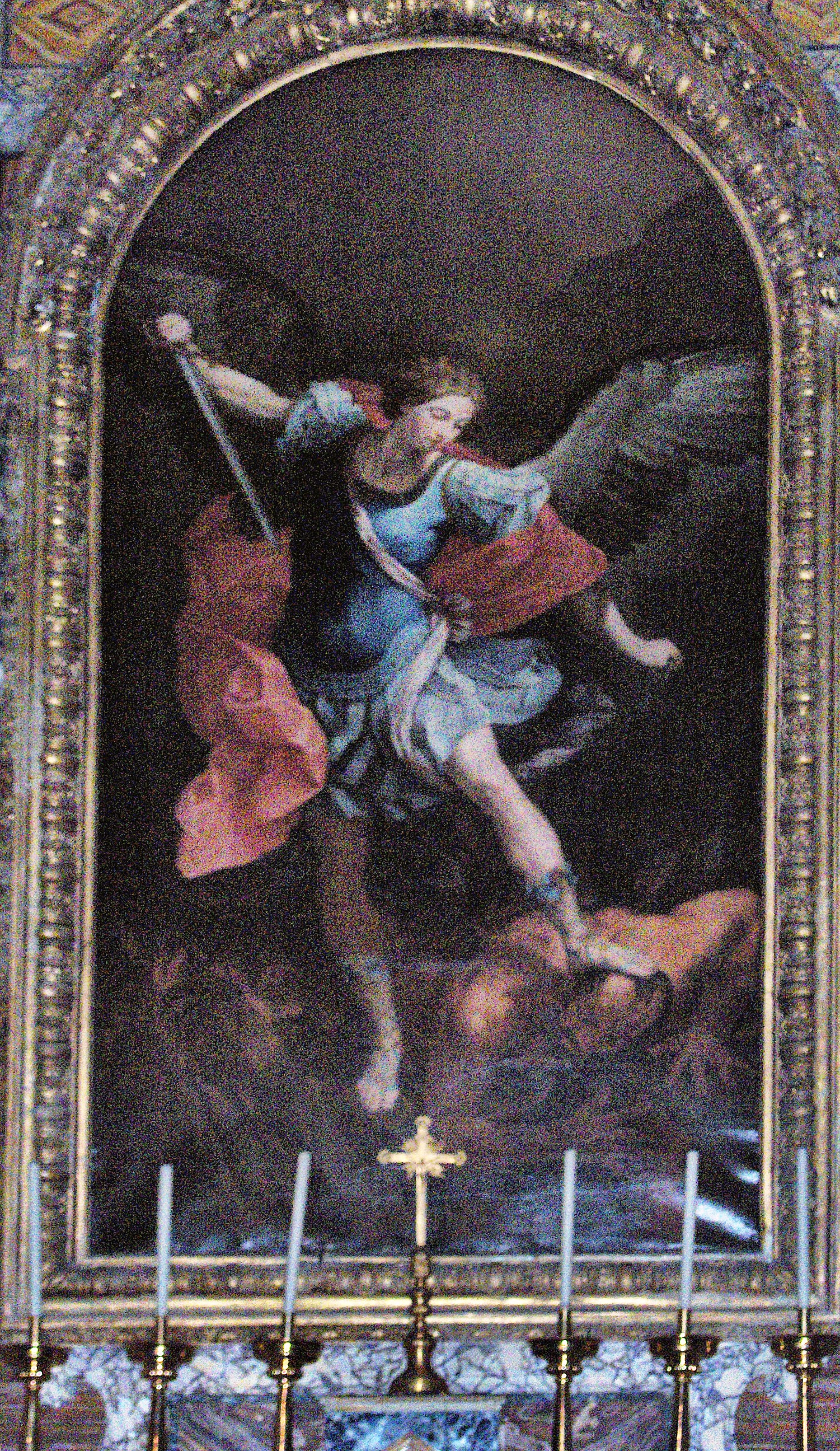 "The Archangel Michael" by Giovanni Bigatti; in the church Sant'Eustachio, Rome, Italy